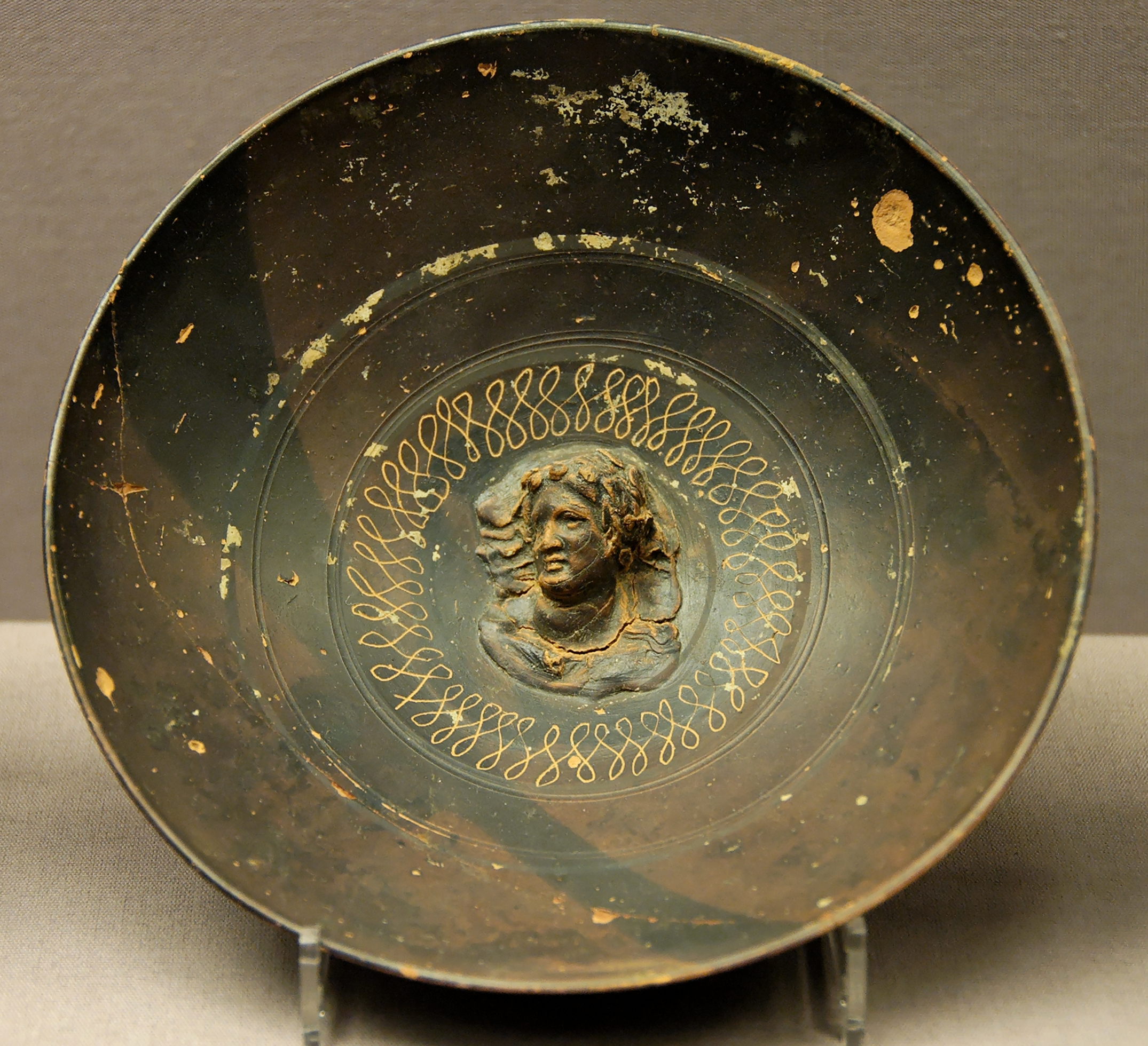 Black-glaze bowl with an incised loop decoration and the head of a maenad in relief. Greek artwork, 2nd century BC (?). From Elis (?).